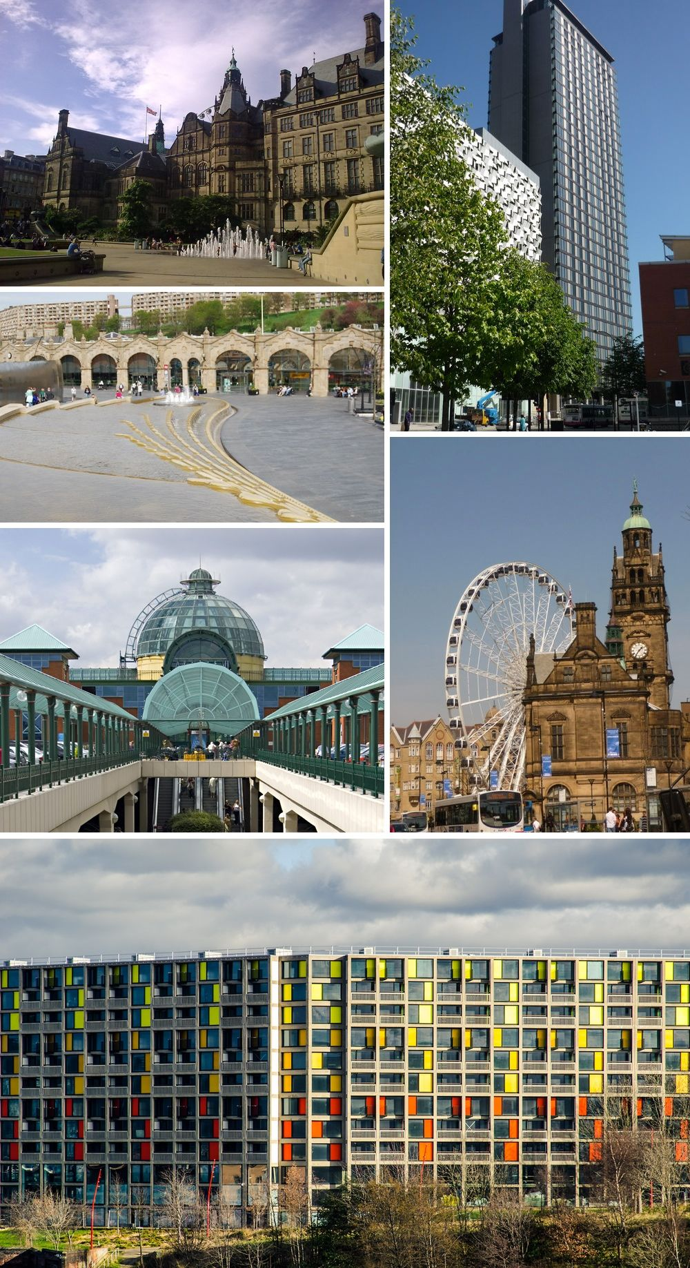 Pictures of Sheffield